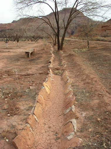 Irrigation system at the Lonely Dell Ranch — in the Glen Canyon National Recreation Area, near Page, Arizona.